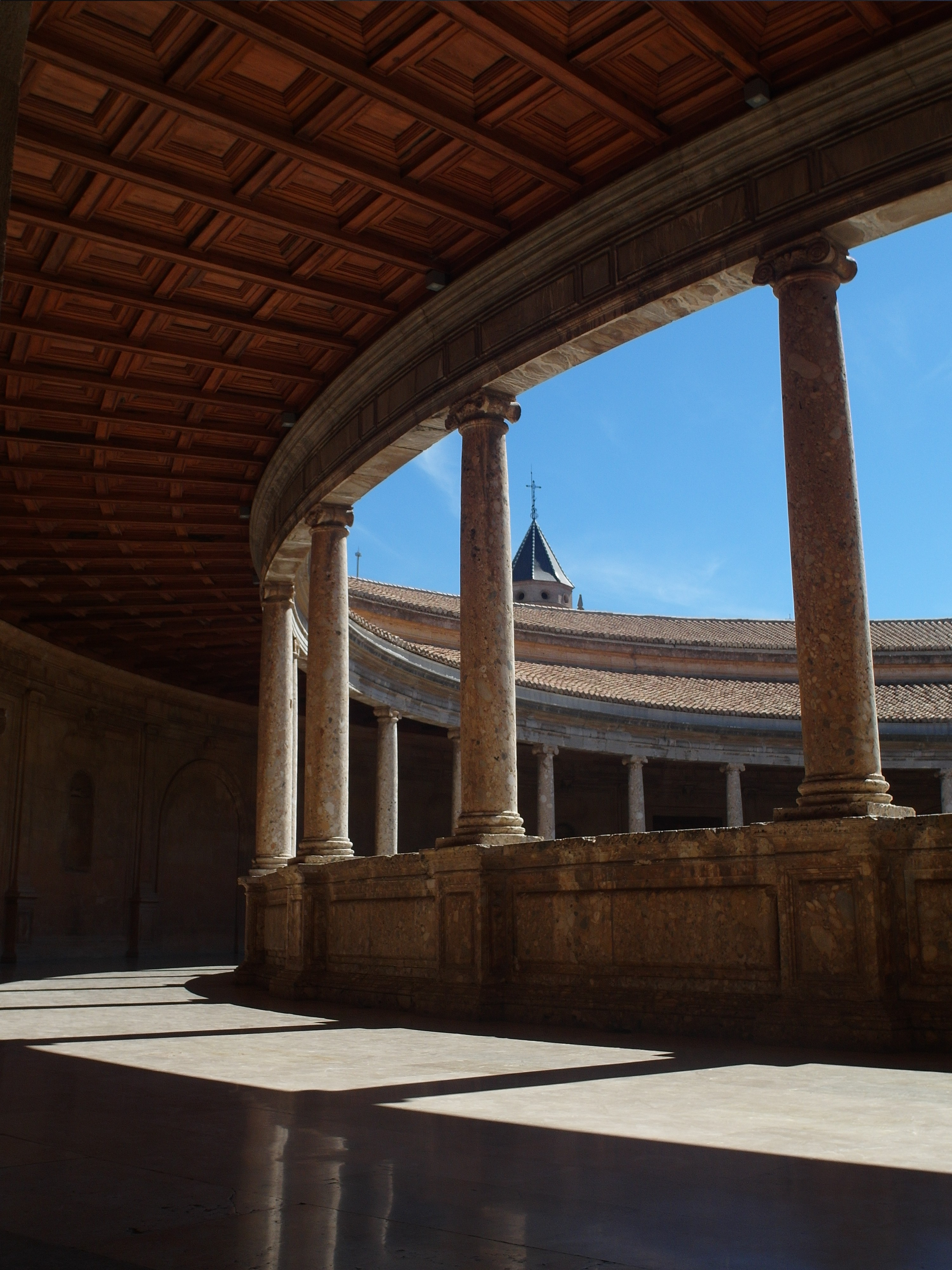 Colonnade in Palacio de Carlos V